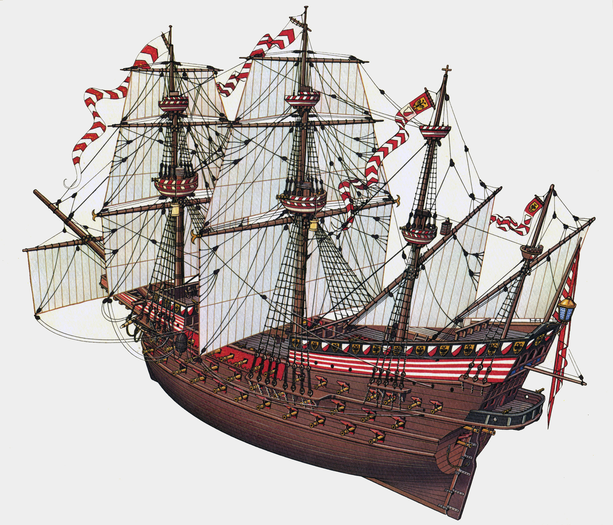 Hanseatic league flagship Adler von Lübeck (1567-88)